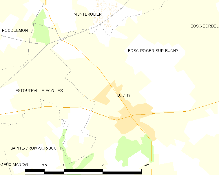 Map of French municipality Buchy